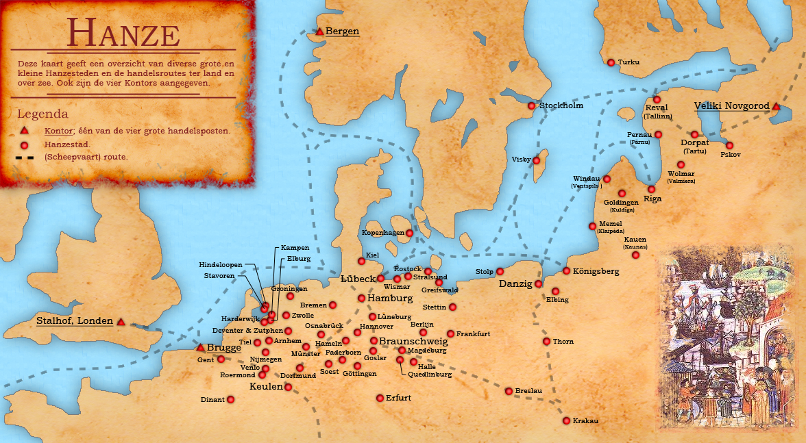 Dutch map of the different small and large Hanseatic Leage cities and trade routes.